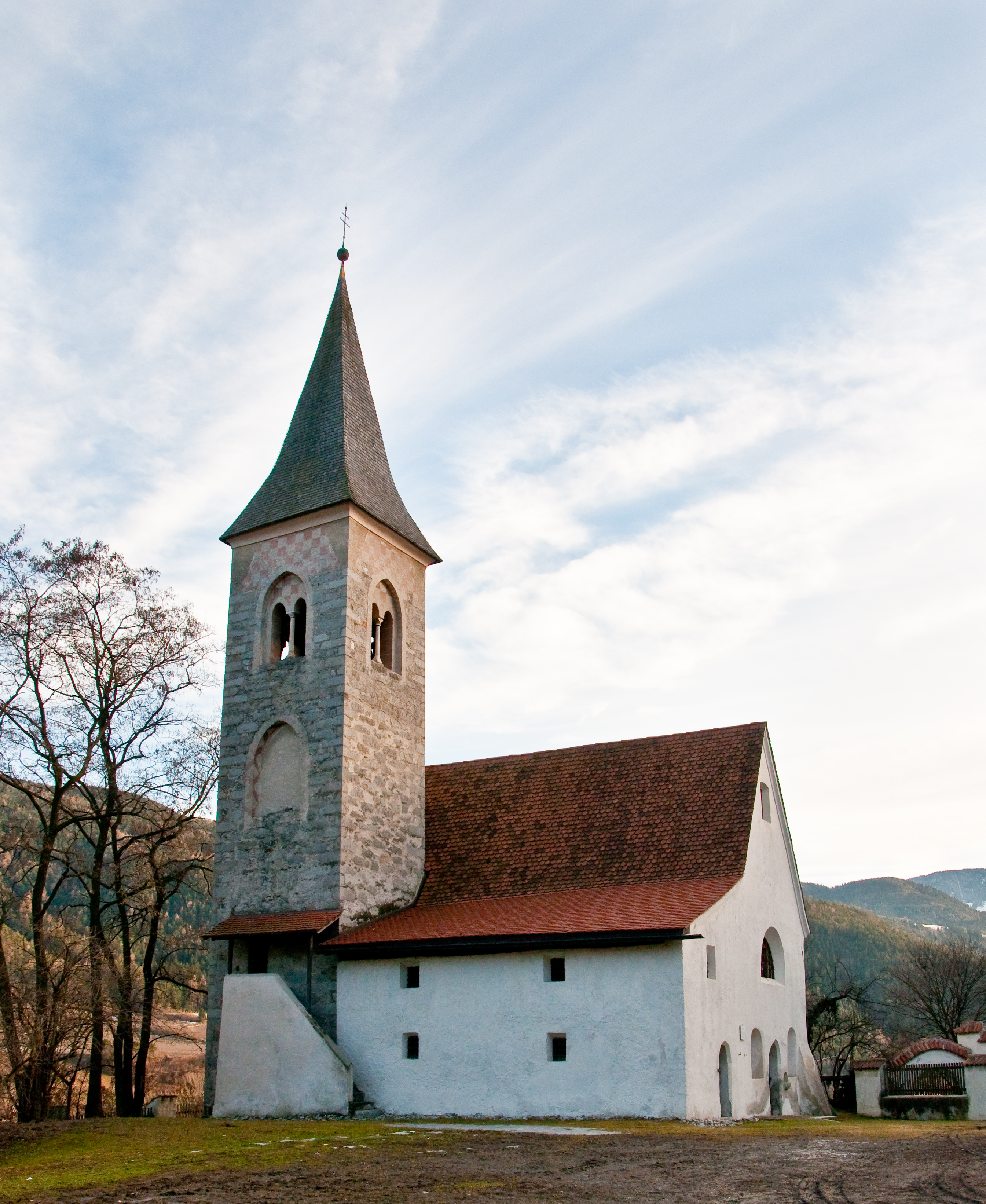 St. Jakob in der Mahr: the small church was mentioned for the first time in 1173. It was consecrated in 1428 to the patron of the pilgrims. On the inside, the artistic decor is remarkable: in the vault the lamb God, surrounded by 16 arms, such as Brixen, Kärnten, Austria and many local aristocratic families. The representation of the legend of Jakob in the choir is from the painter- school of Master Leonhard von Brixen. Chiesa di San Giacomo: documentata già nel 1173, fu riedificata in stile gotico dopo il 1400.